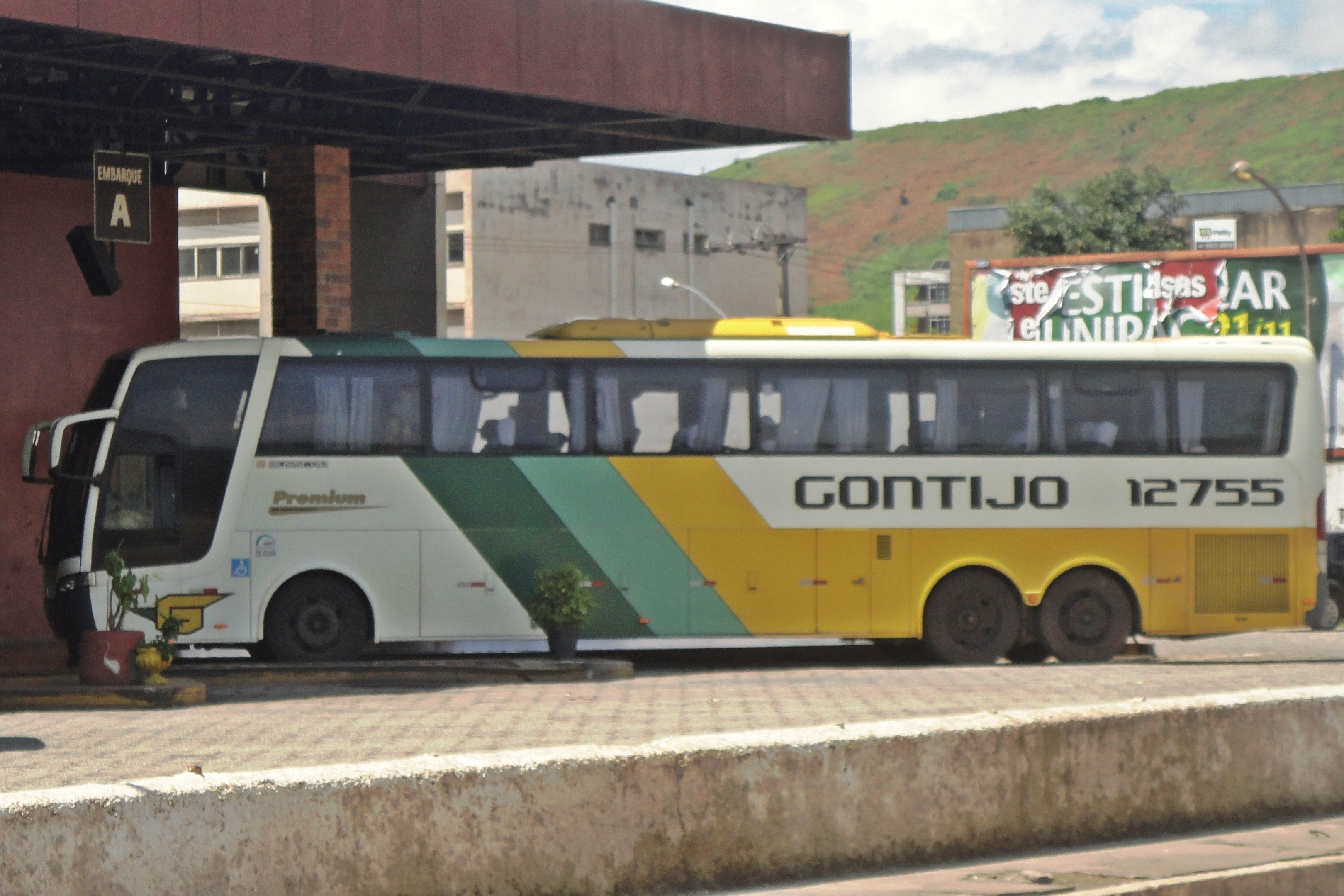 Busscar coach (#12755) with Scania 6x2 chassis of Gontijo Company in the Coronel Fabriciano bus station, in Coronel Fabriciano, Minas Gerais, Brazil.